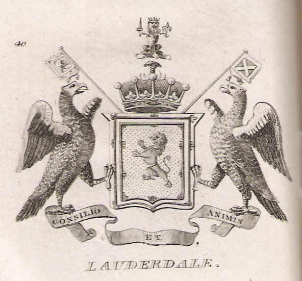 Taken from an engraving in Brown's The Peerage of Scotland, Edinburgh, 1834. Out of copyright.